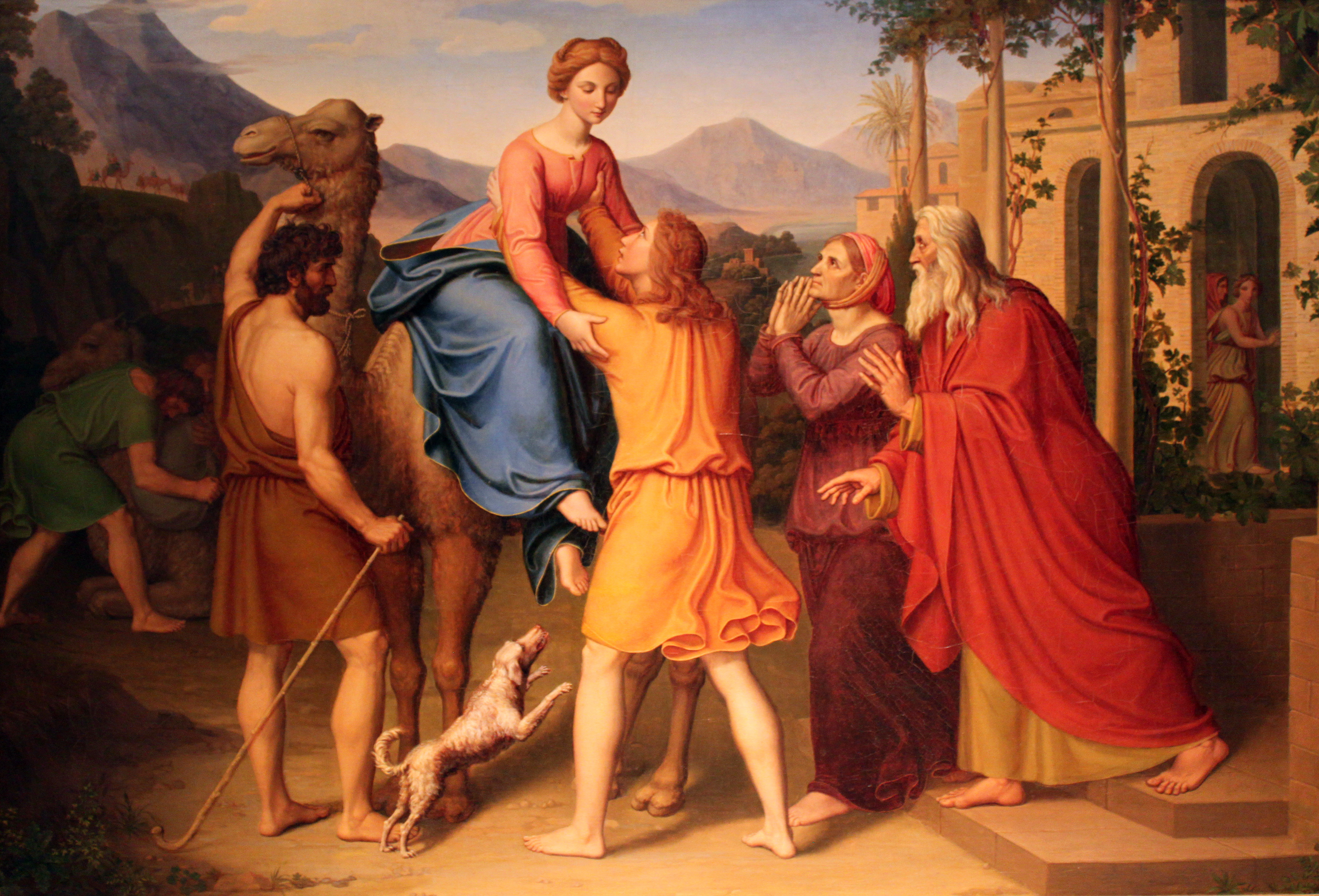 Tobias receives Sarrah at his parents' house